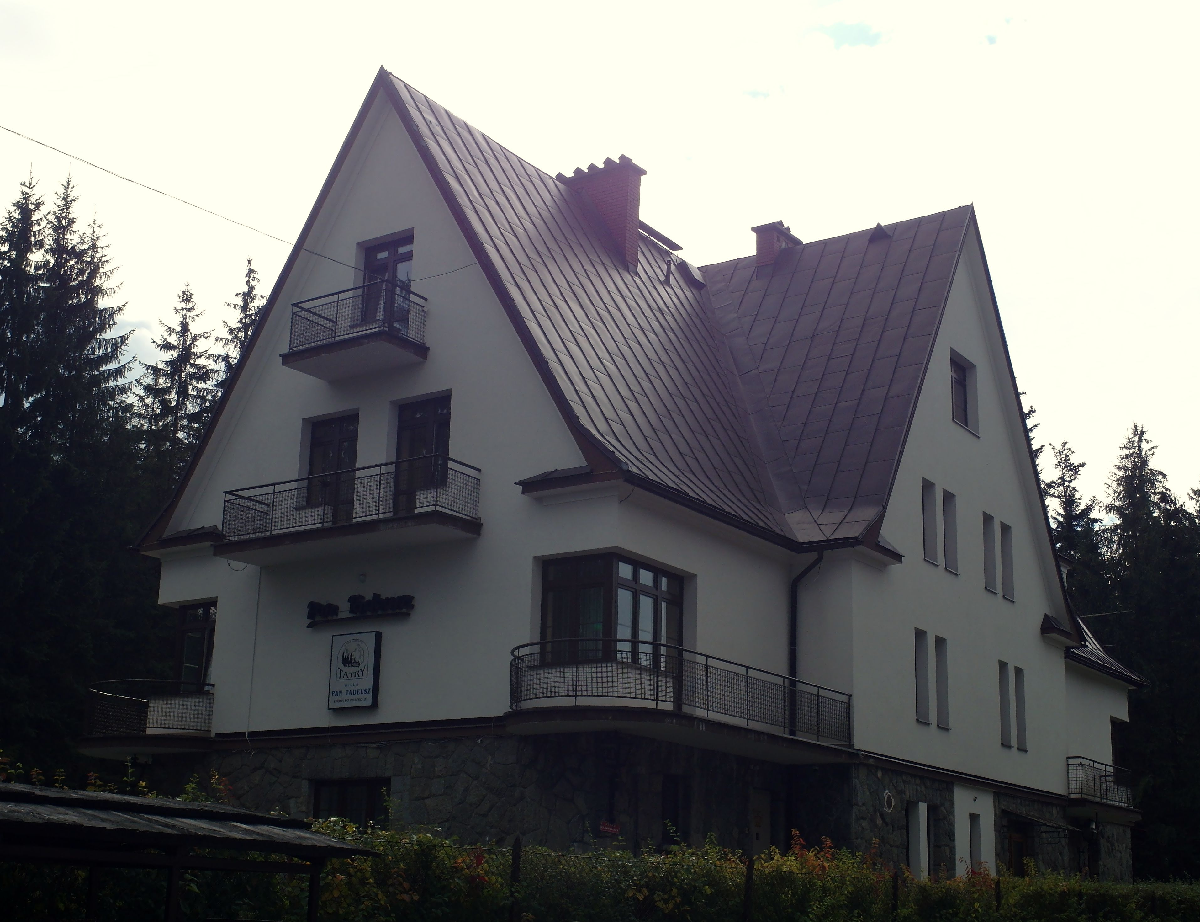 Villa Pan Tadeusz, Zakopane